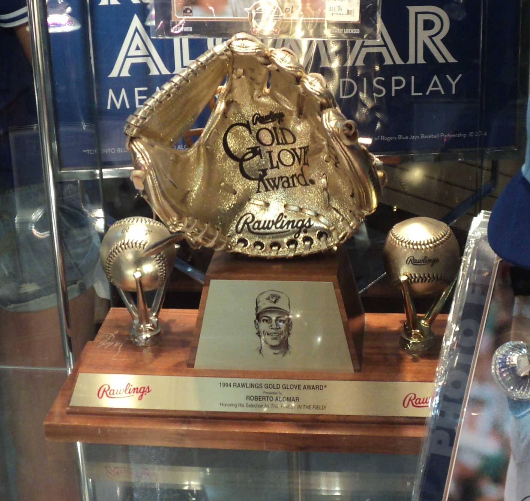 Roberto Alomar's Golden Glove Award.